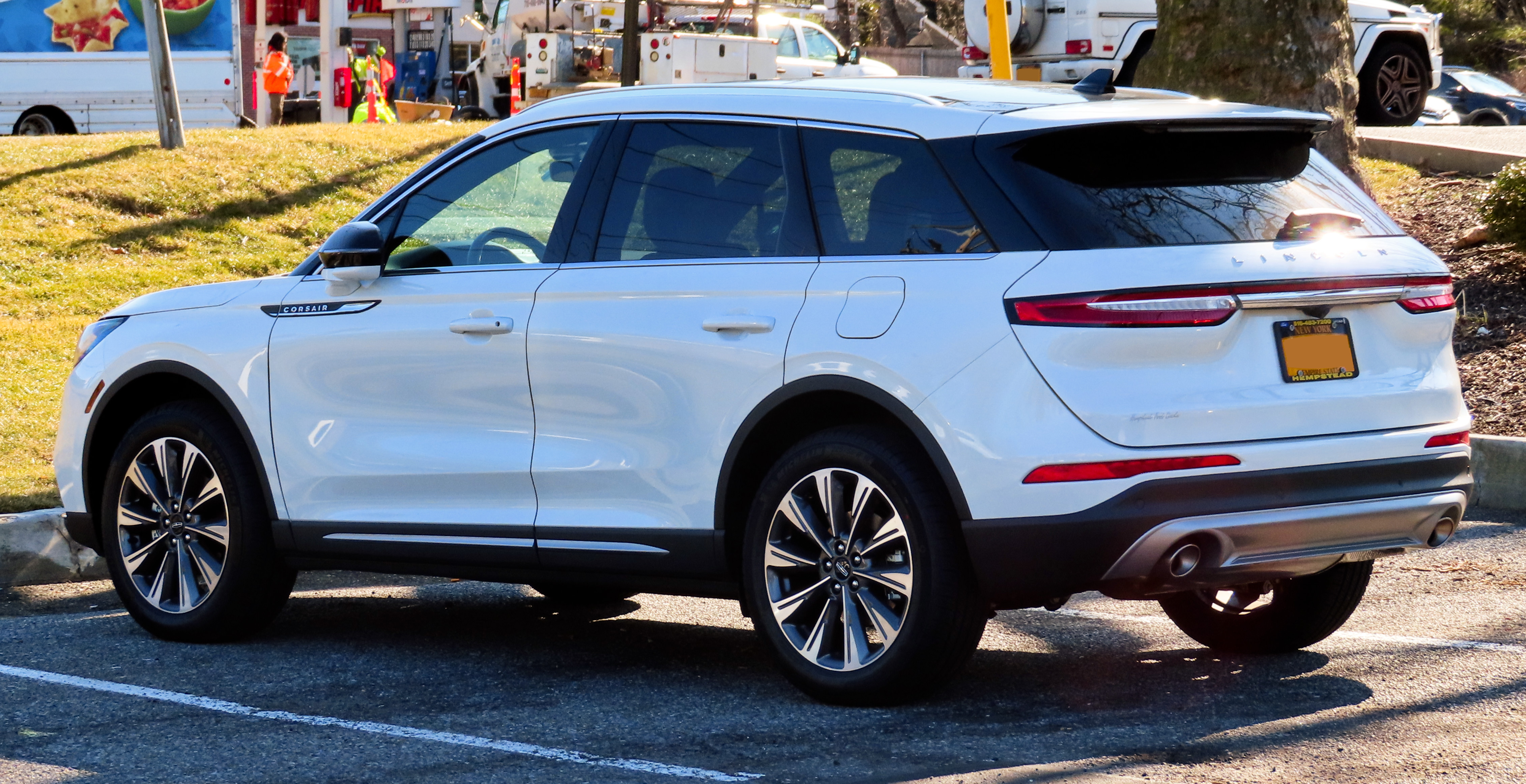 A 2020 Lincoln Corsair photographed in Manhasset, New York, USA